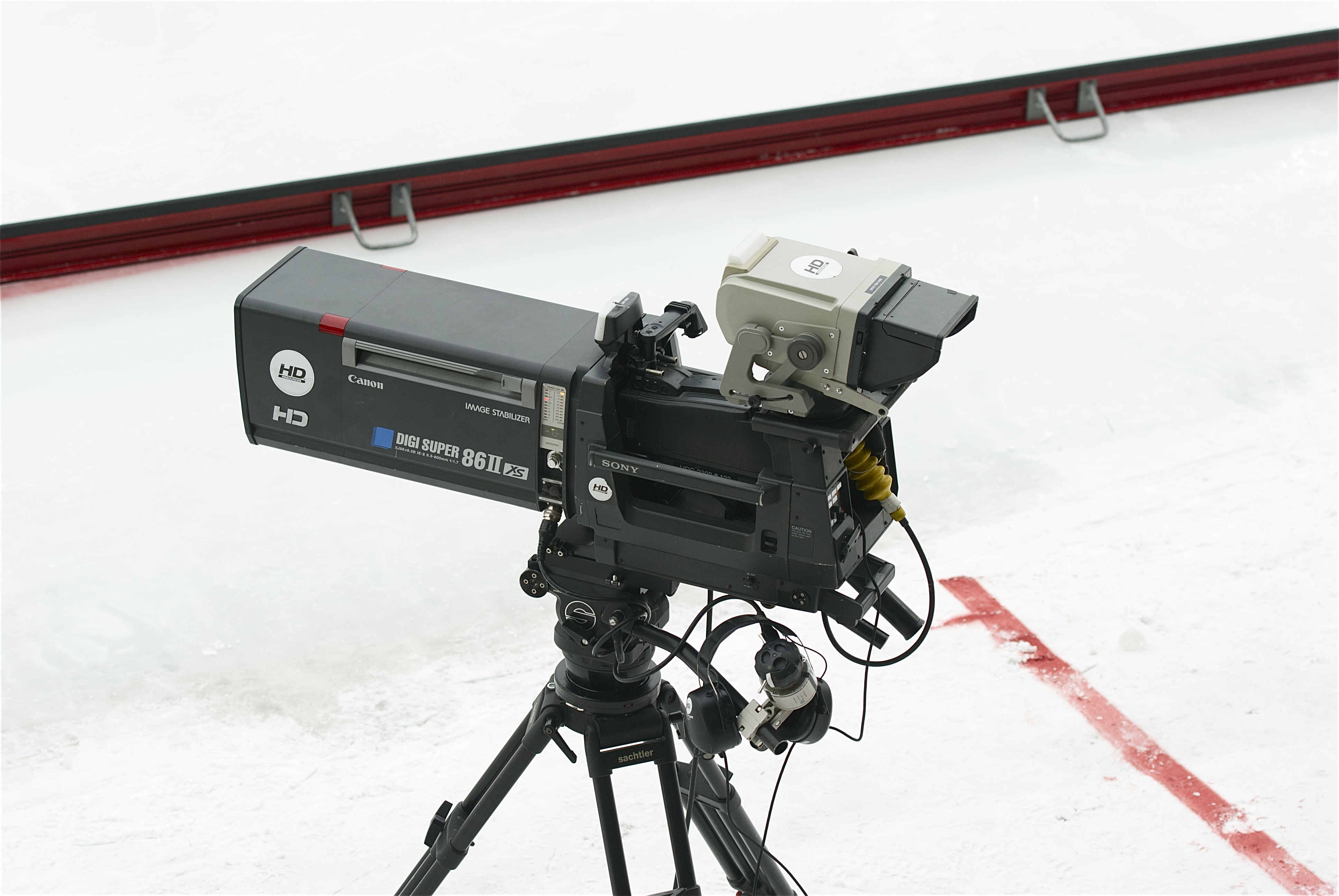 Sony digital television camera with a DIGI SUPER 86II xs lens from Canon. The camera was used during a bandy match between Hammarby and GAIS in Elitserien, Zinkendamms IP (Stockholm) 2012-02-11.